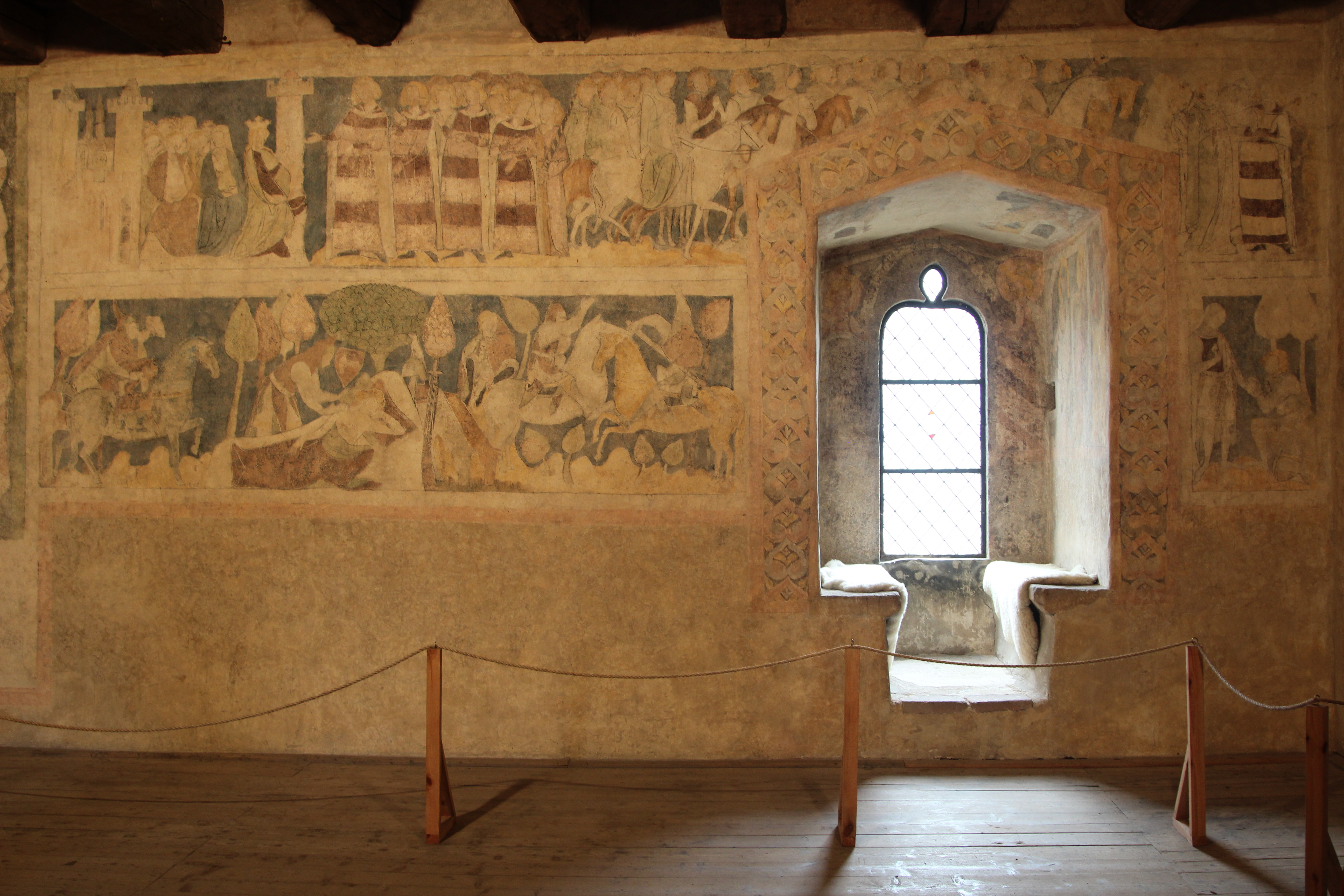 Gothic frescos in Siedlęcin Ducal Tower